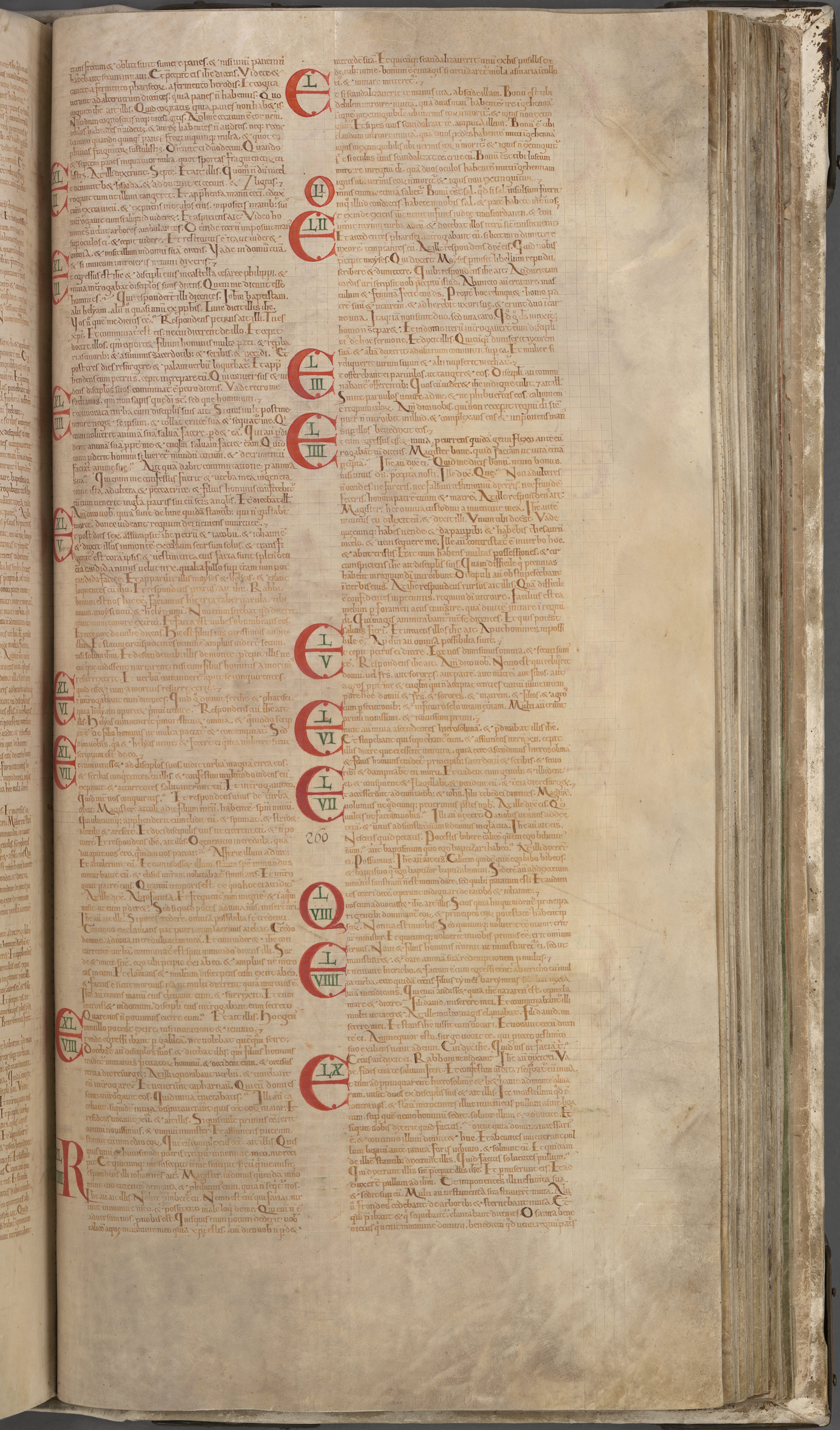 Giant Book) is the largest extant medieval manuscript in the world. It is also known as the Devil's Bible because of a large illustration of the devil on the inside and the legend surrounding its creation. It is thought to have been created in the early 13th century in the Benedictine monastery of Podlažice in Bohemia (modern Czech Republic). It contains the Vulgate Bible as well as many historical documents all written in Latin. During the Thirty Years' War in 1648, the entire collection was taken by the Swedish army as plunder, and now it is preserved at the National Library of Sweden in Stockholm, though it is not normally on display.